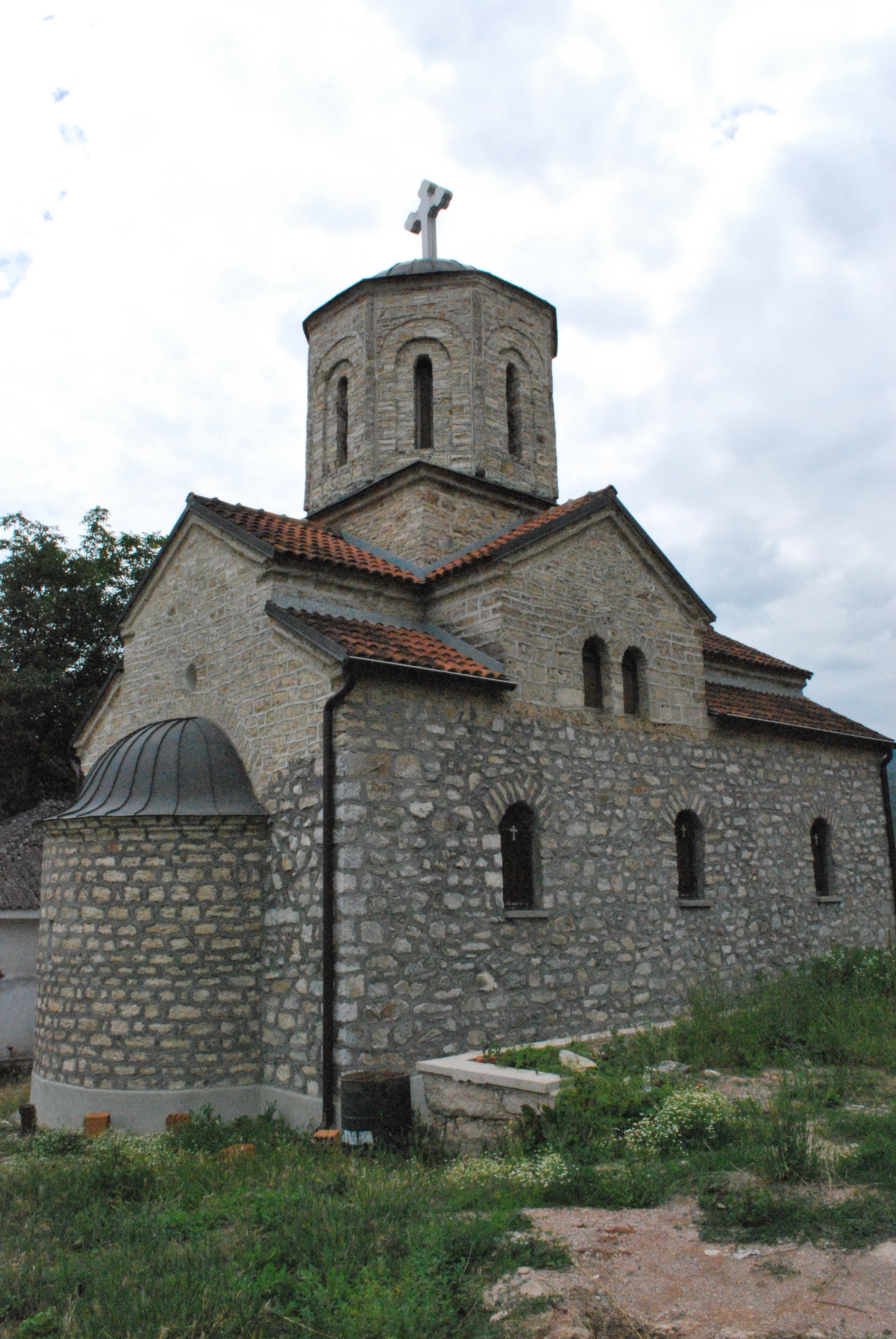 St. Nedela Church in Drugovo, Macedonia